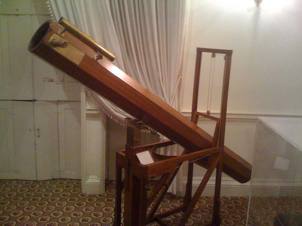 Replica of the telescope Herschel used to see Uranus